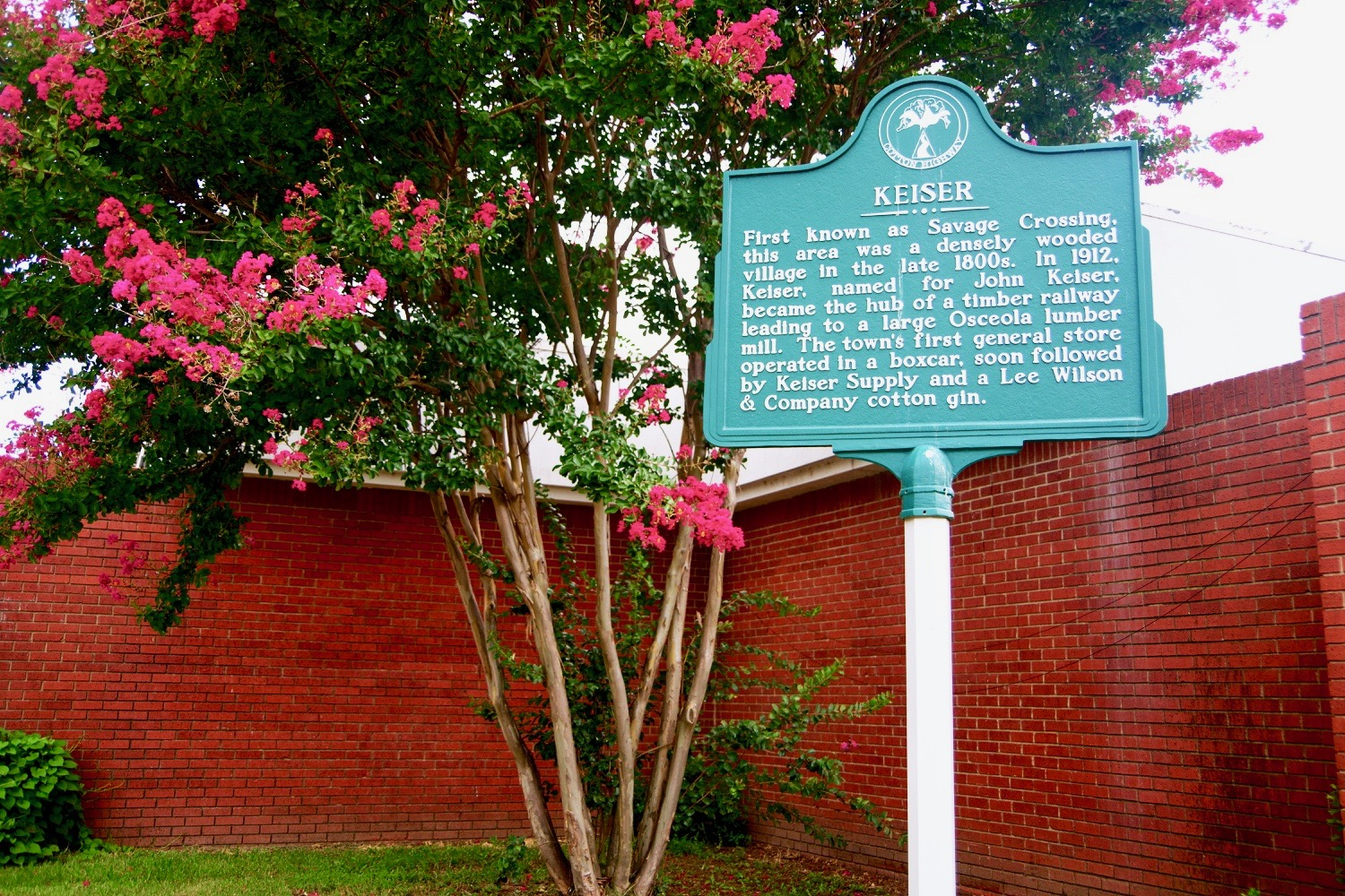 "Cotton Highways" historical marker in Keiser, Arkansas, United States, detailing the city's early history.